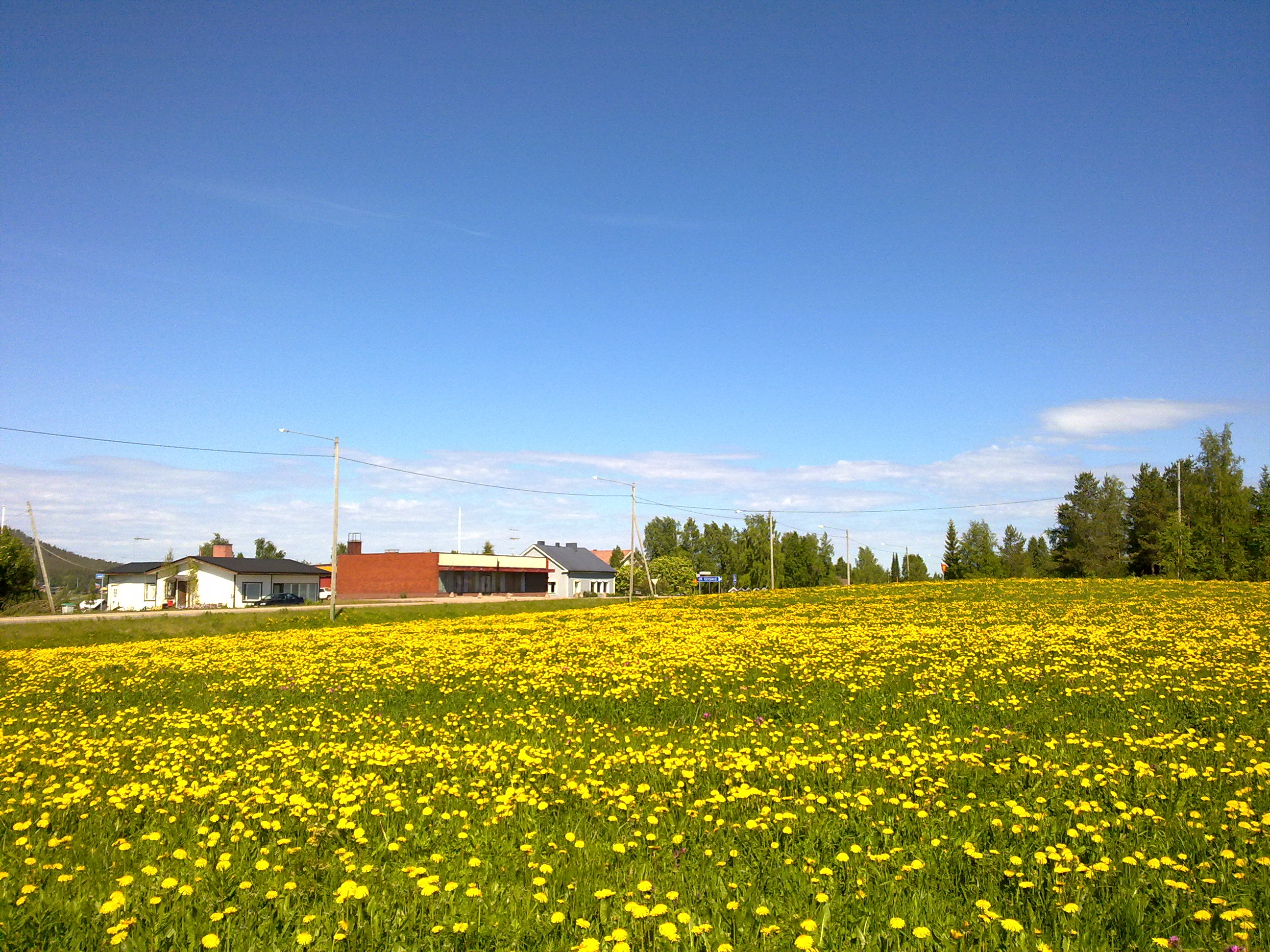 A view to the small town of Turtola across a field of dandelions. The elementary school of Turtola is located across the road in the middle behind the other buildings (red tile roof can be seen).